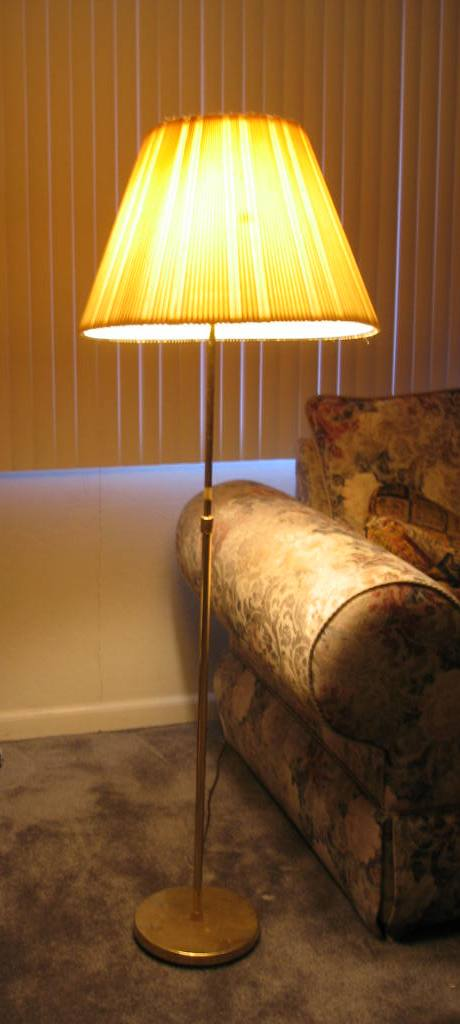 Floor lamp Author: User:Jiang